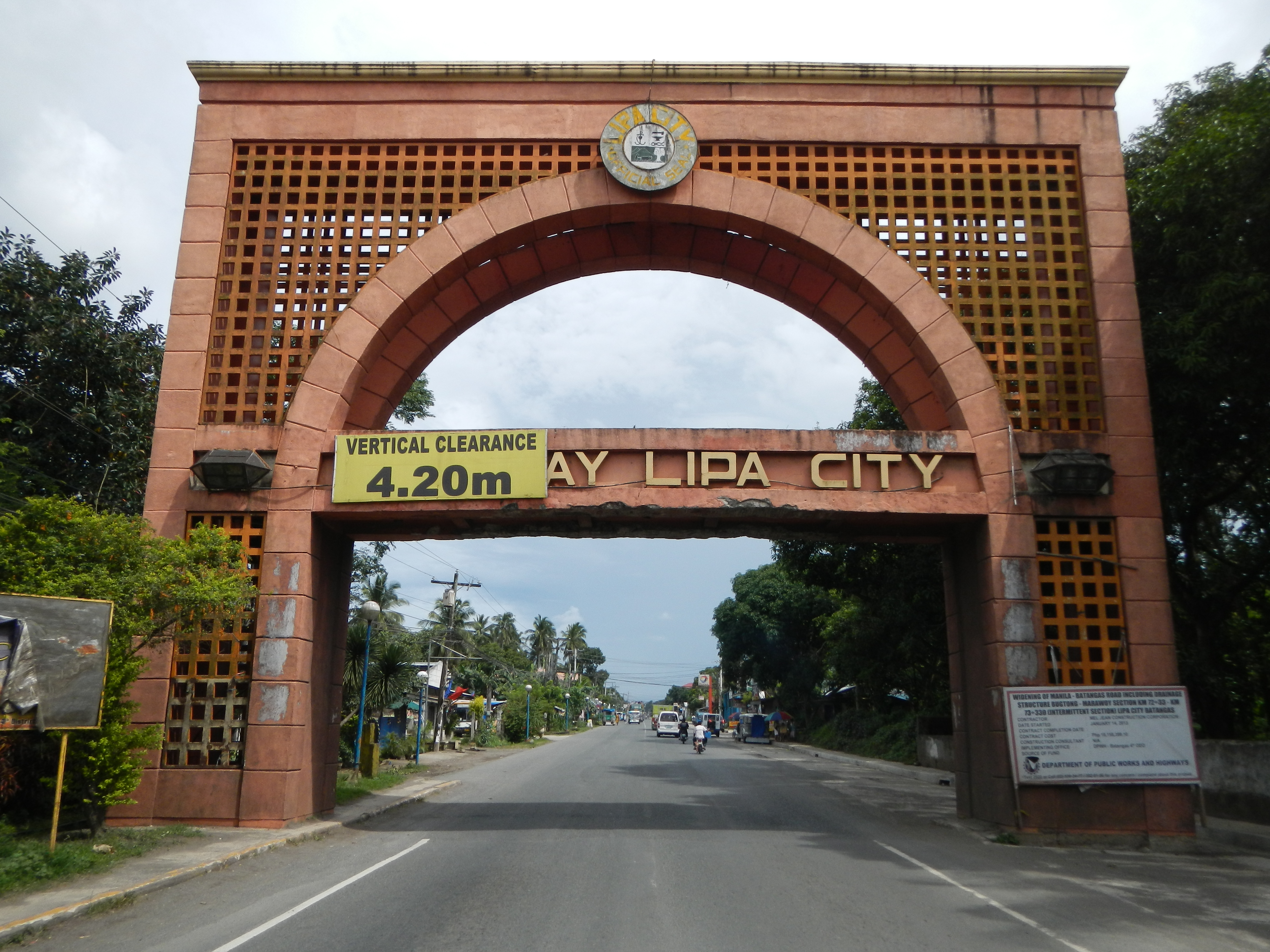 Welcome Arch of Boundary Barangays of -- Malvar, Batangas [1] --Website Official FB [2] World-class racetrack sets opening & Lipa, Batangas[3] The City of Lipa (Filipino: Lungsod ng Lipa /Li-pâ/ is a first class component city in the province of Batangas in the Philippines.)